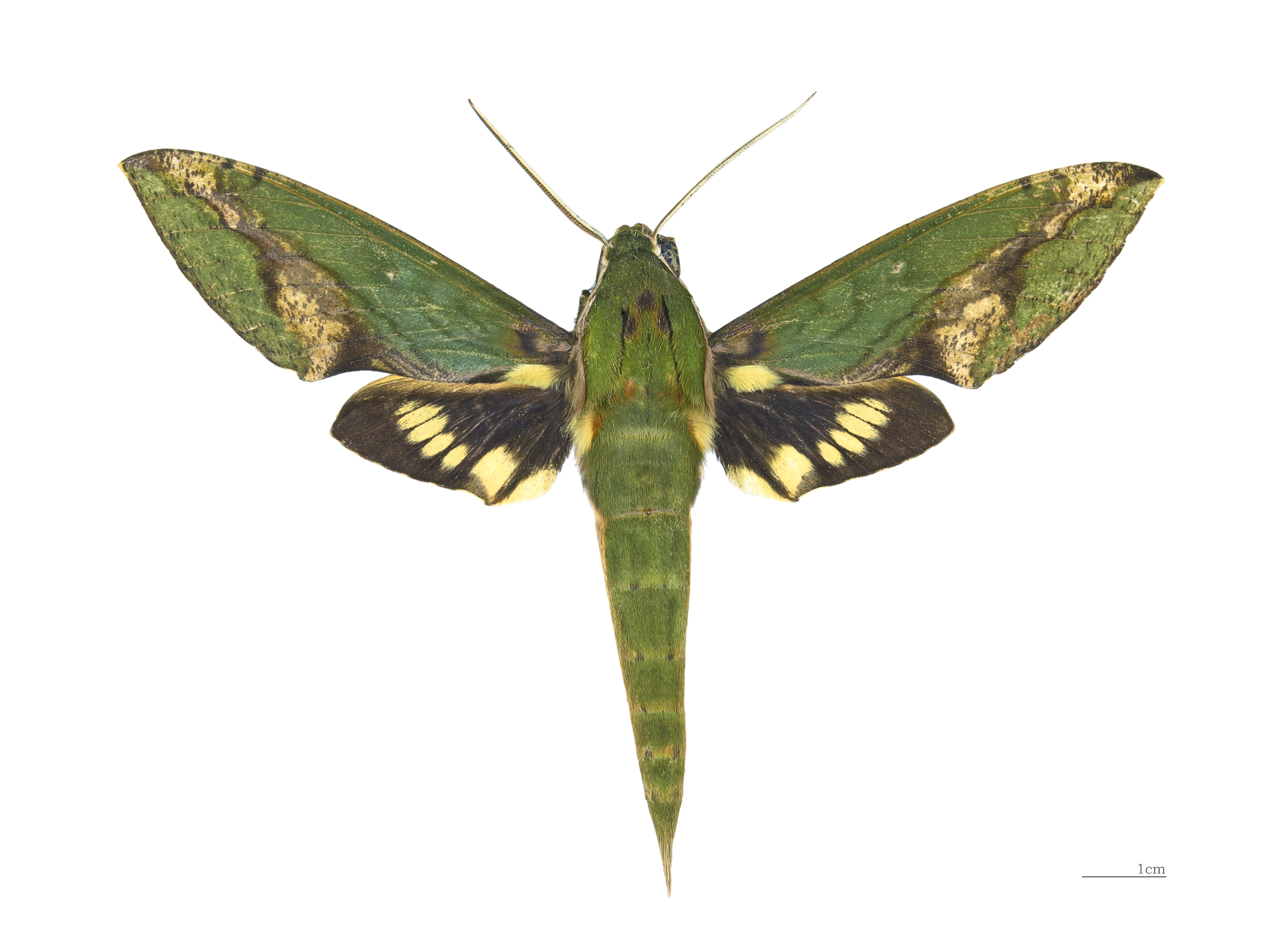 Xylophanes chiron nechus- Dorsal side